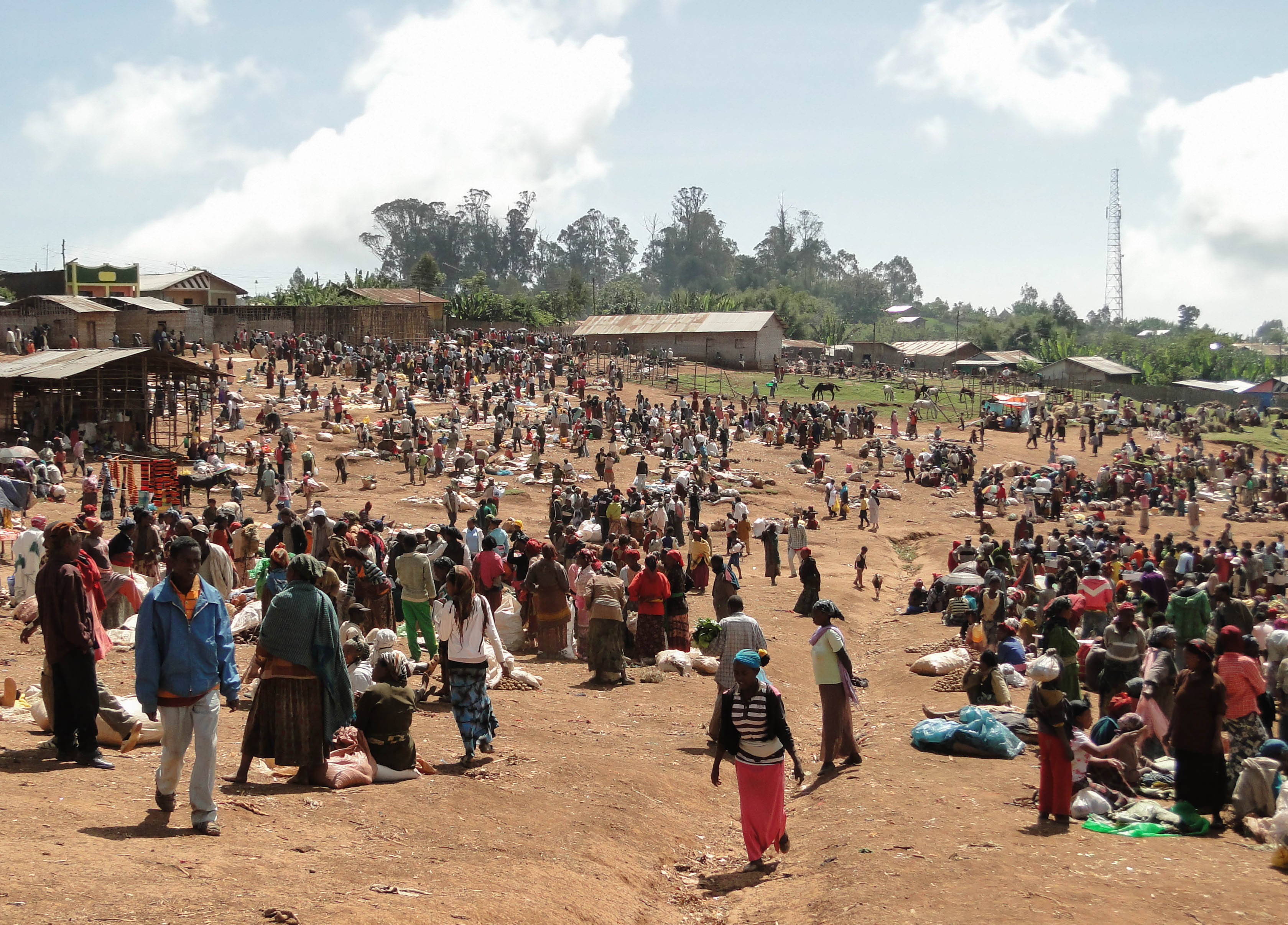 Chencha market in Ethiopia